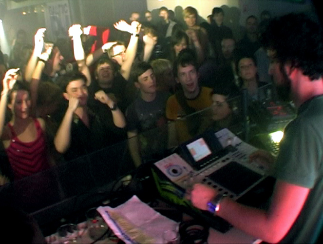 Zombie Nation live in Vilnius Akai MPC4000[1] Korg Kaoss Pad 3 References ↑ Monster smash — Time Out New York. .